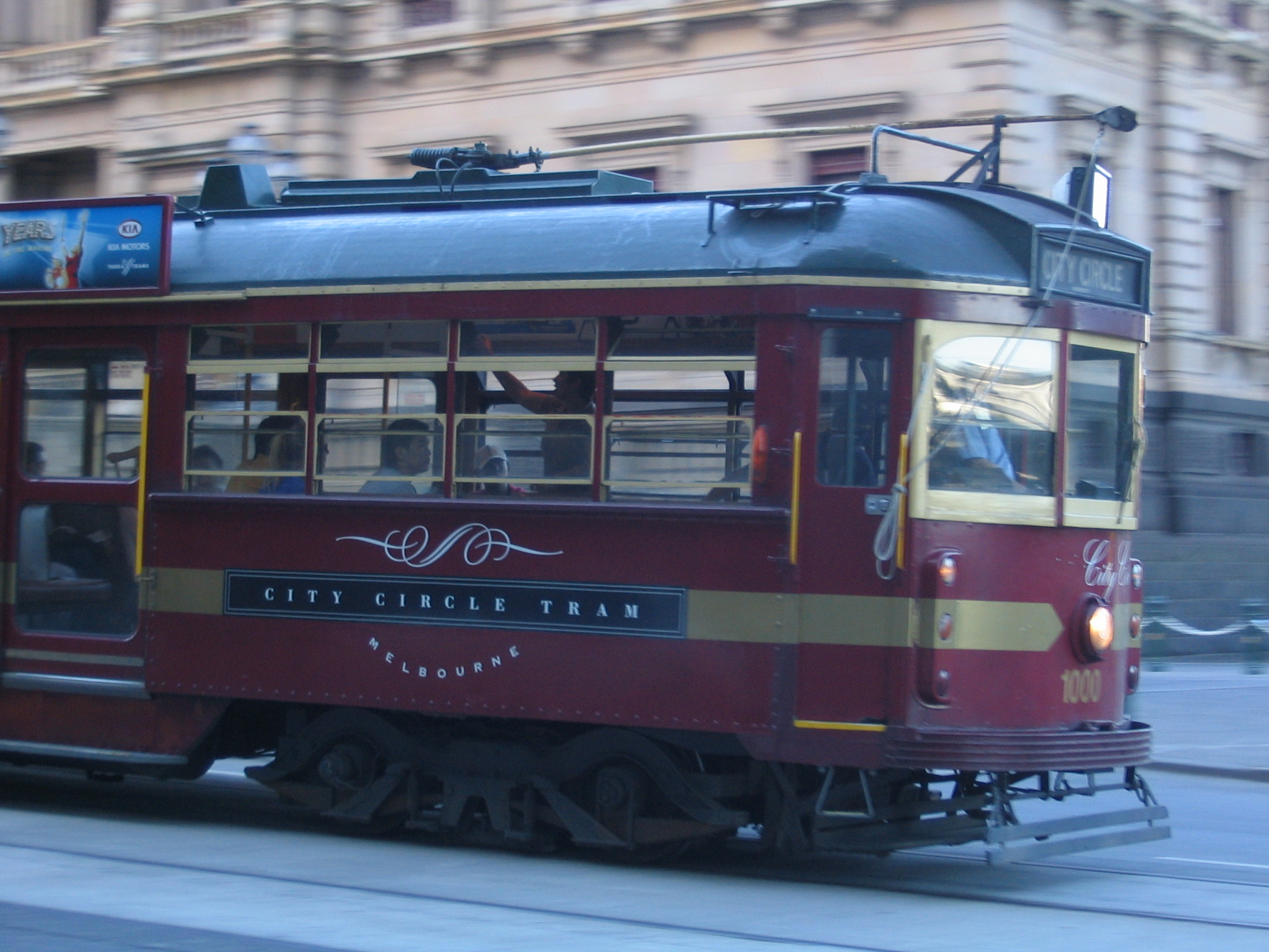 city circle tourist tram.W